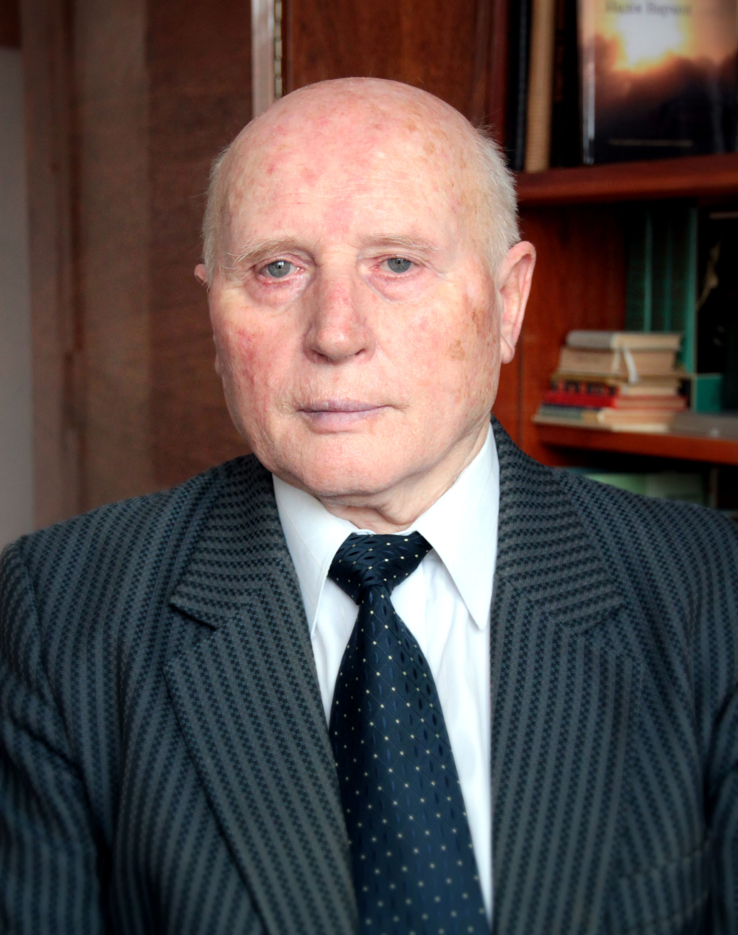 Elias Galajda 2013